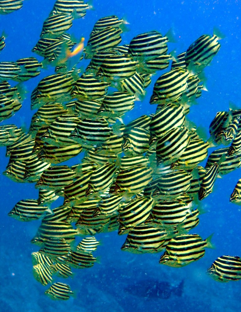 A ball of Stripeys (Microcanthus strigatus). Green Island, South West Rocks, NSW